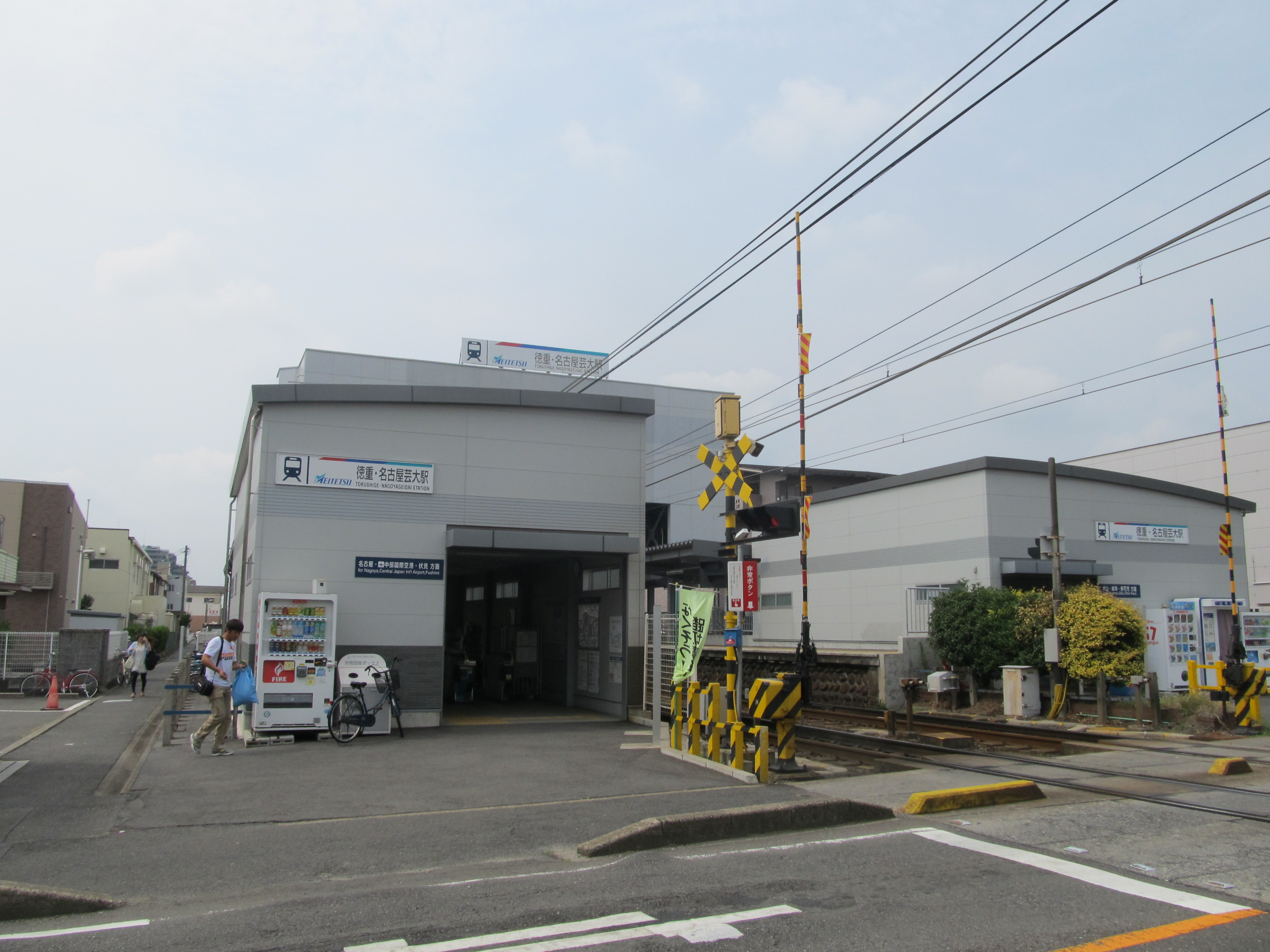 Nagoya Railroad Inuyama Line Tokushige-Nagoya-Geidai Station West Gate